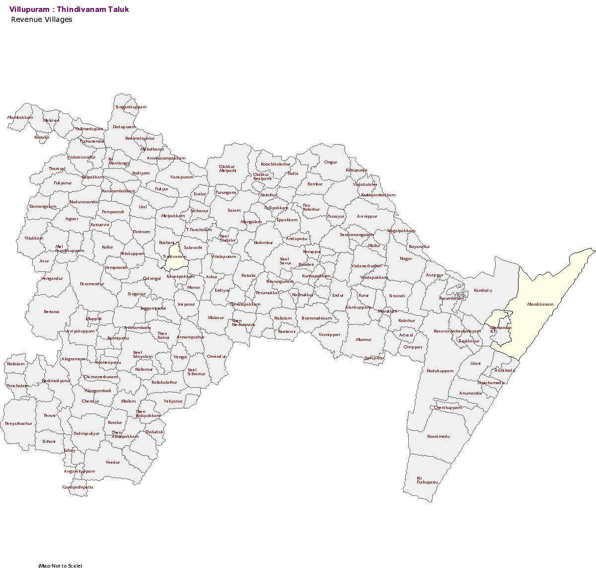 Map Indicating Village Panchayats under Tindivanam Taluk